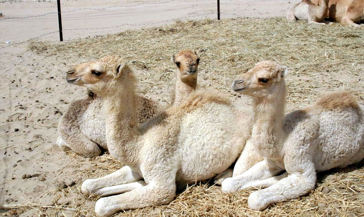 This is a photo showing camels relaxing in Dubai, United Arab Emirates on 8 March 2007.